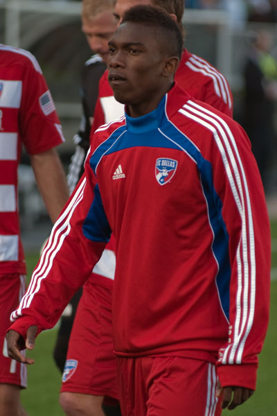 Picture of association football player, Fabián Castillo.